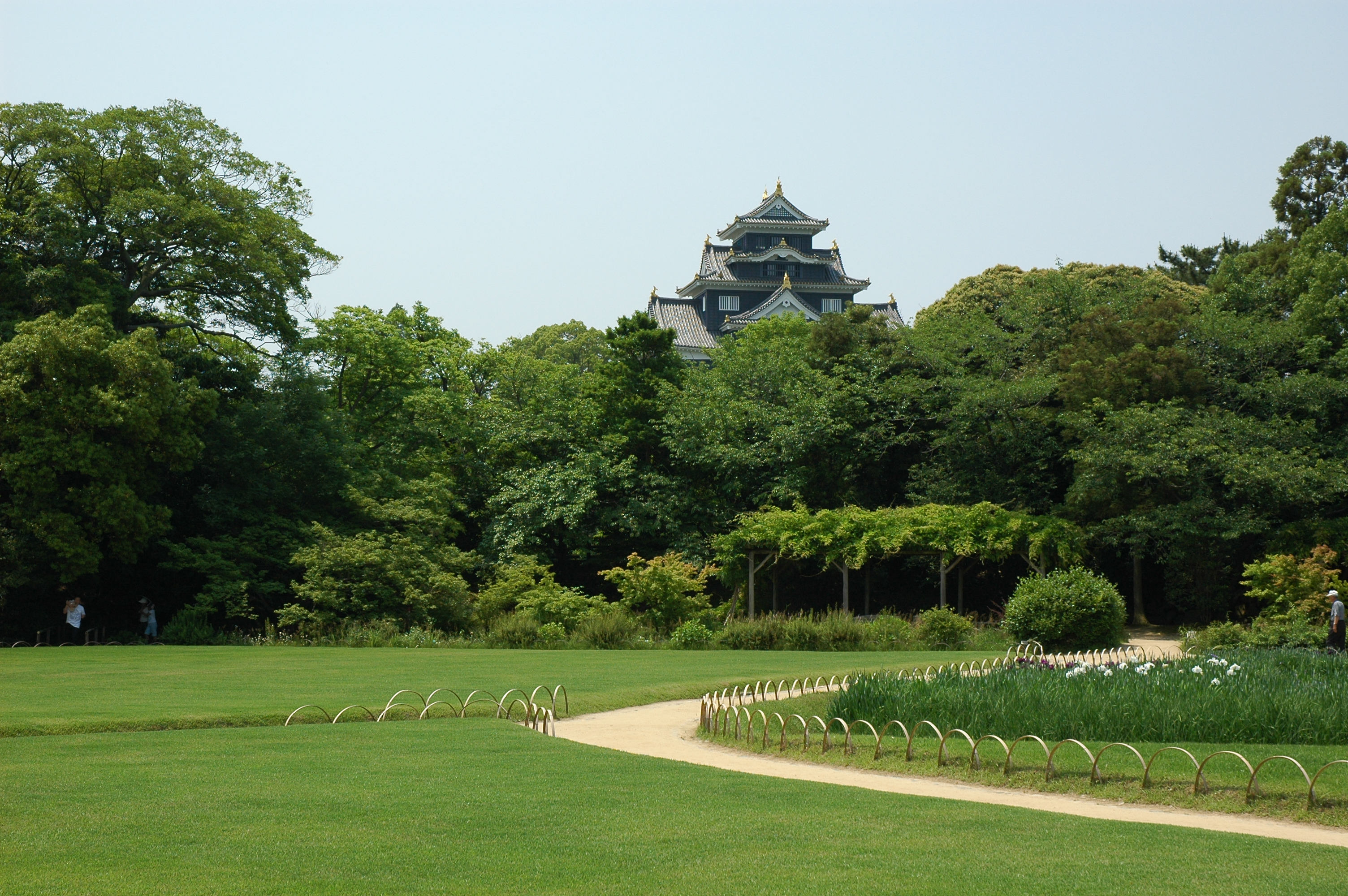 view of iris garden and the Keep of Okayama castle